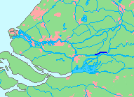 Location of a waterway (river/canal) in the Netherlends